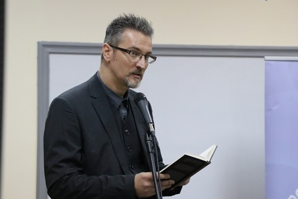 Zoran Bognar holding his book, being part of the Literature Colony in Vranje in December 2019